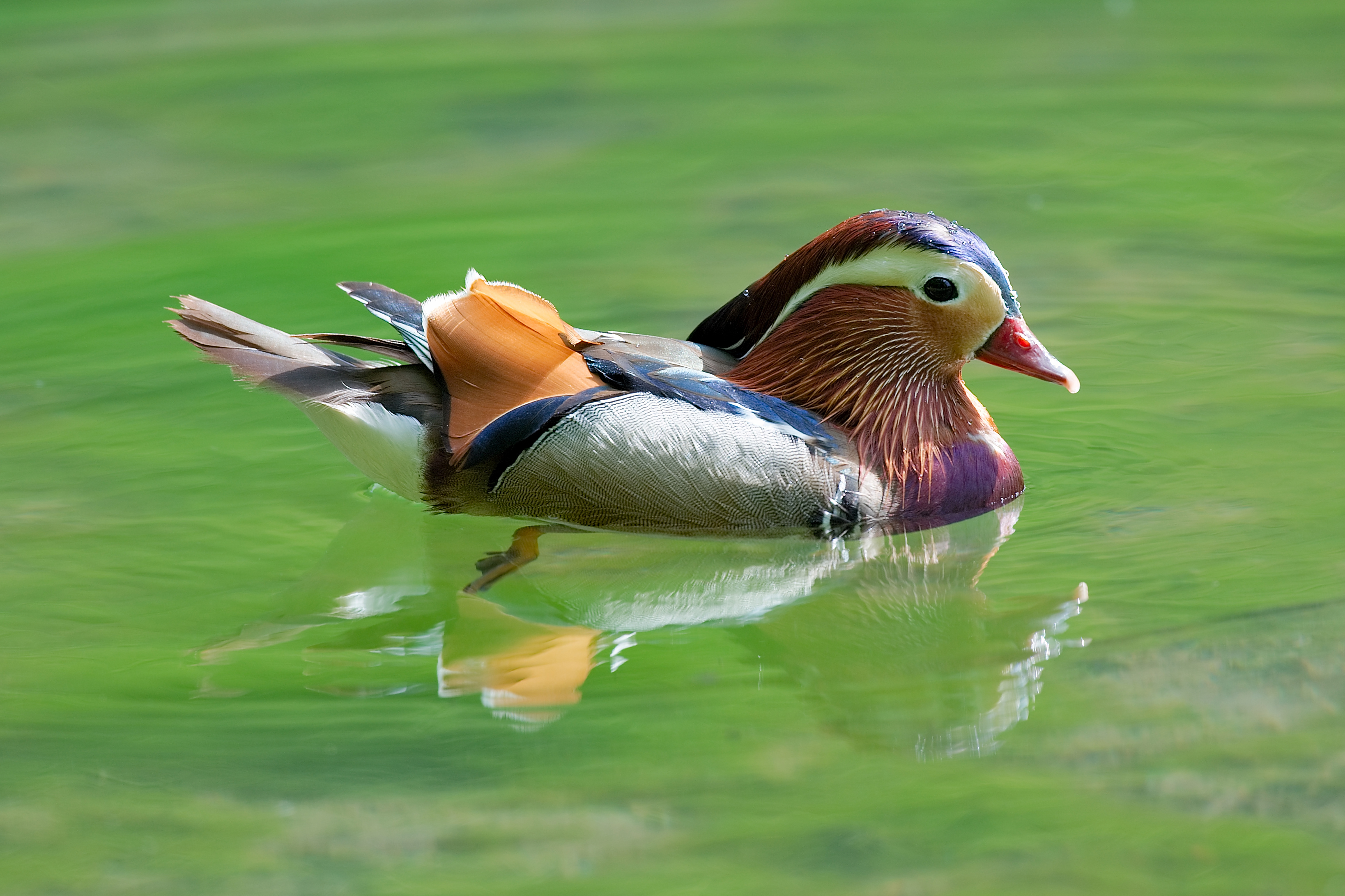 A Mandarin Duck (Aix galericulata).